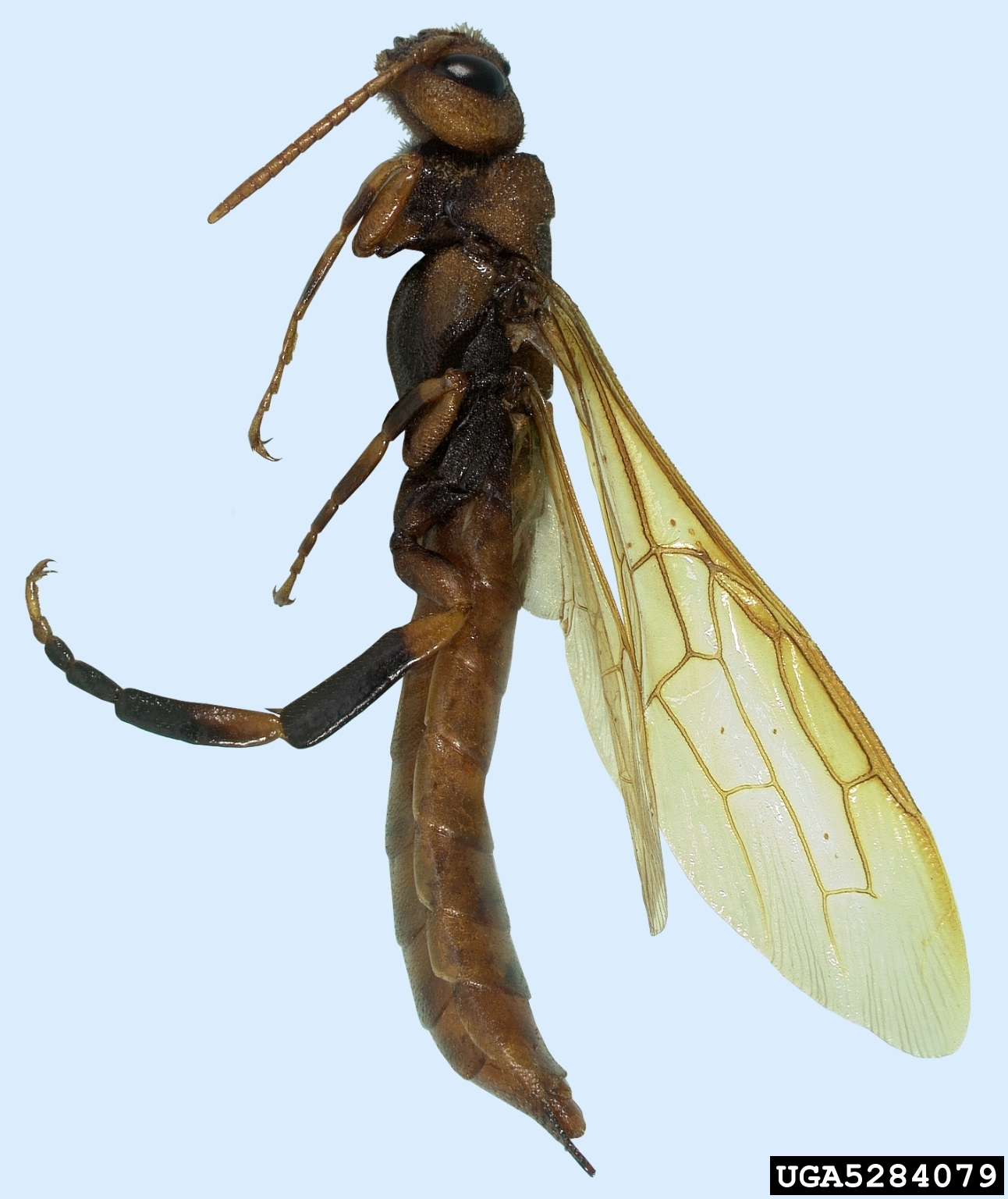 pigeon tremex Tremex columba (Linnaeus) Image Number: 5284079 Descriptor: Adult(s) Description: Collection information: 16-Sep-92, Colorado: Jefferson Co. Image location: FDACS-DPI, Gainesville, Florida, United States Image type: Laboratory Subject Gender: Male Image view: Lateral Photographer Information Name: Natasha Wright Organization: Florida Department of Agriculture and Consumer Services Country: United States